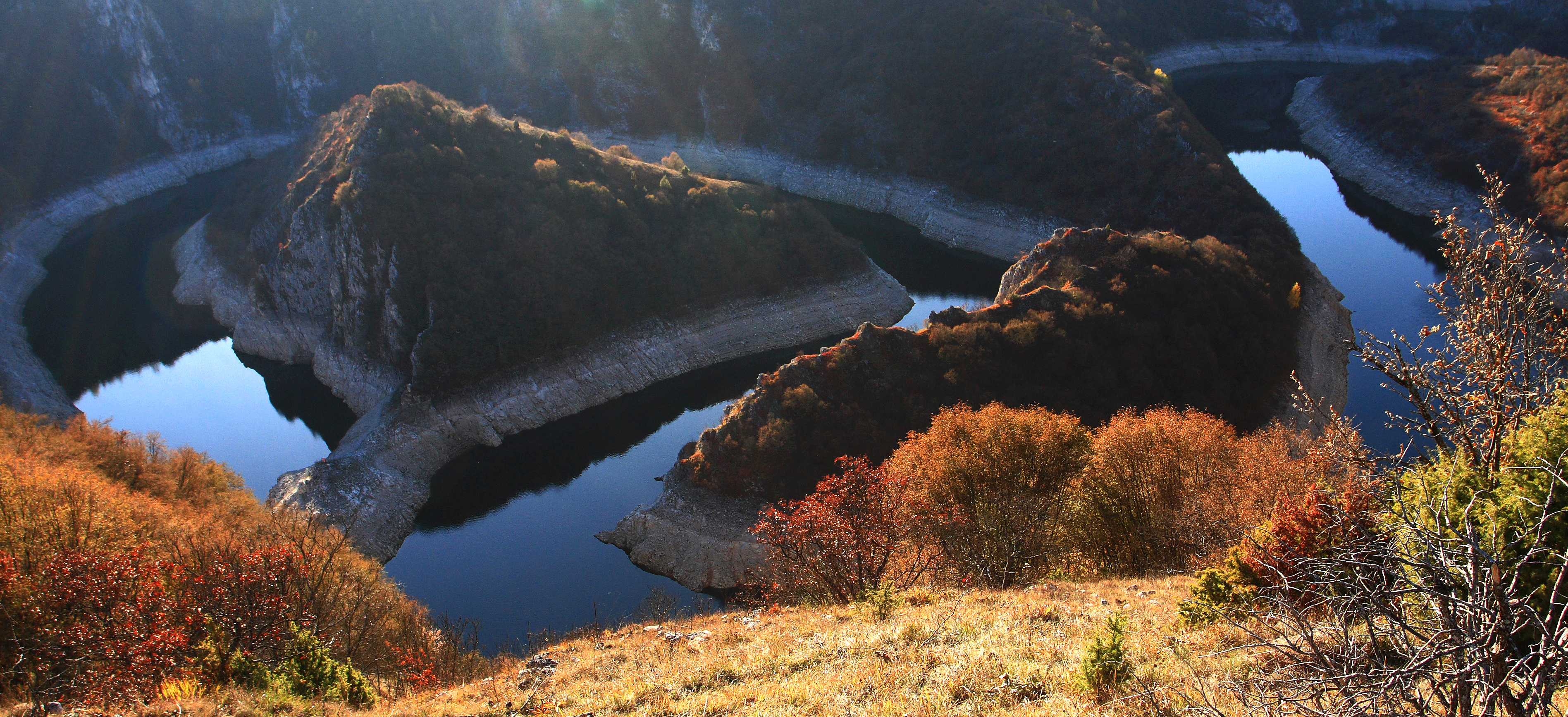 Curving meanders in Special Nature Reserve Uvac River canyon valley, Serbia